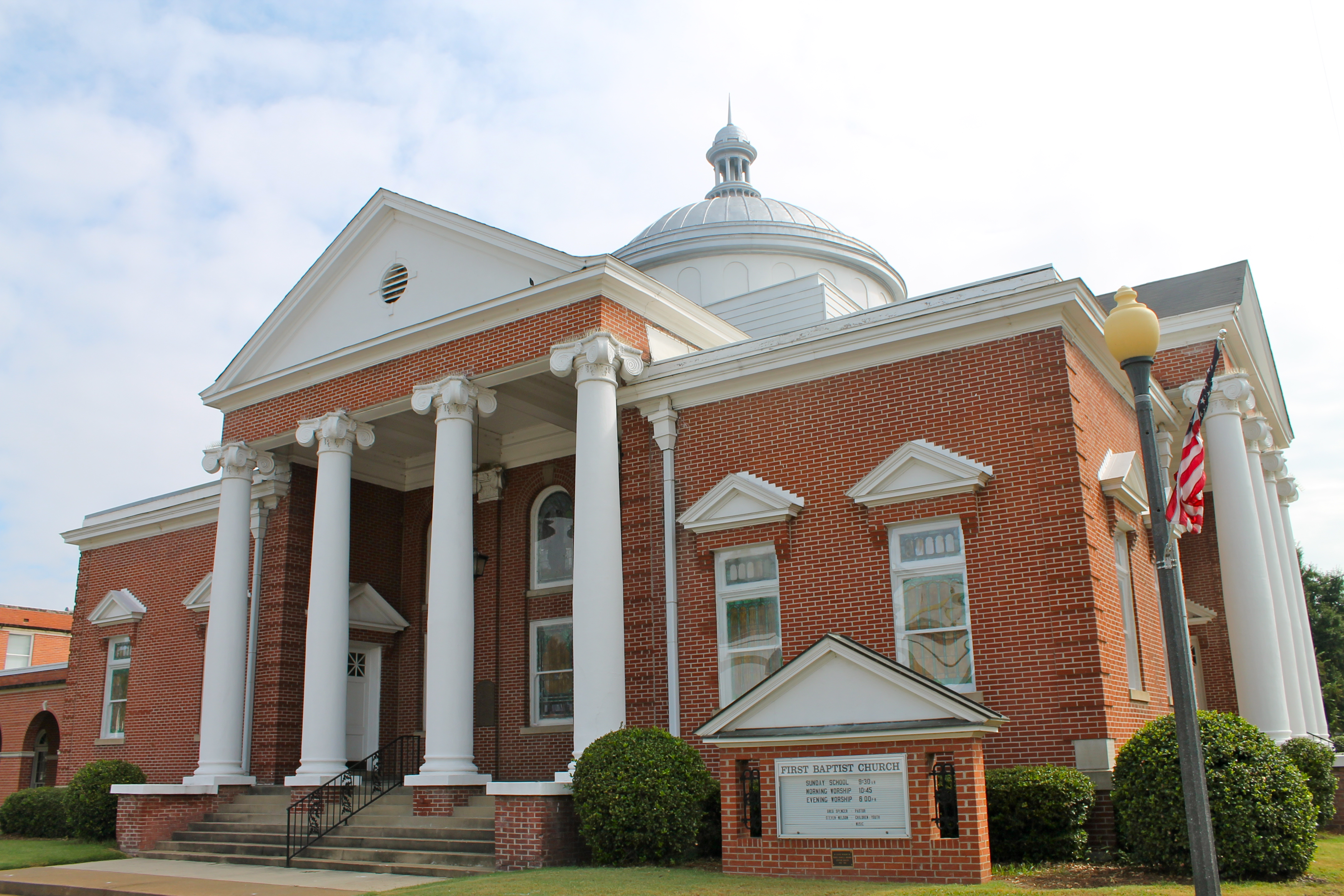 Indianola First Baptist Church — in Indianola, Sunflower County, Mississippi. Within the Indianola Historic District (on the National Register of Historic Places), which is roughly bounded by Percy St. on the north, Front to Adair on the west to Roosevelt, Roosevelt east to Front Extended and north Indianola. It's rumored the First Baptist Church basement became home for white students in the wake of federal integration laws.